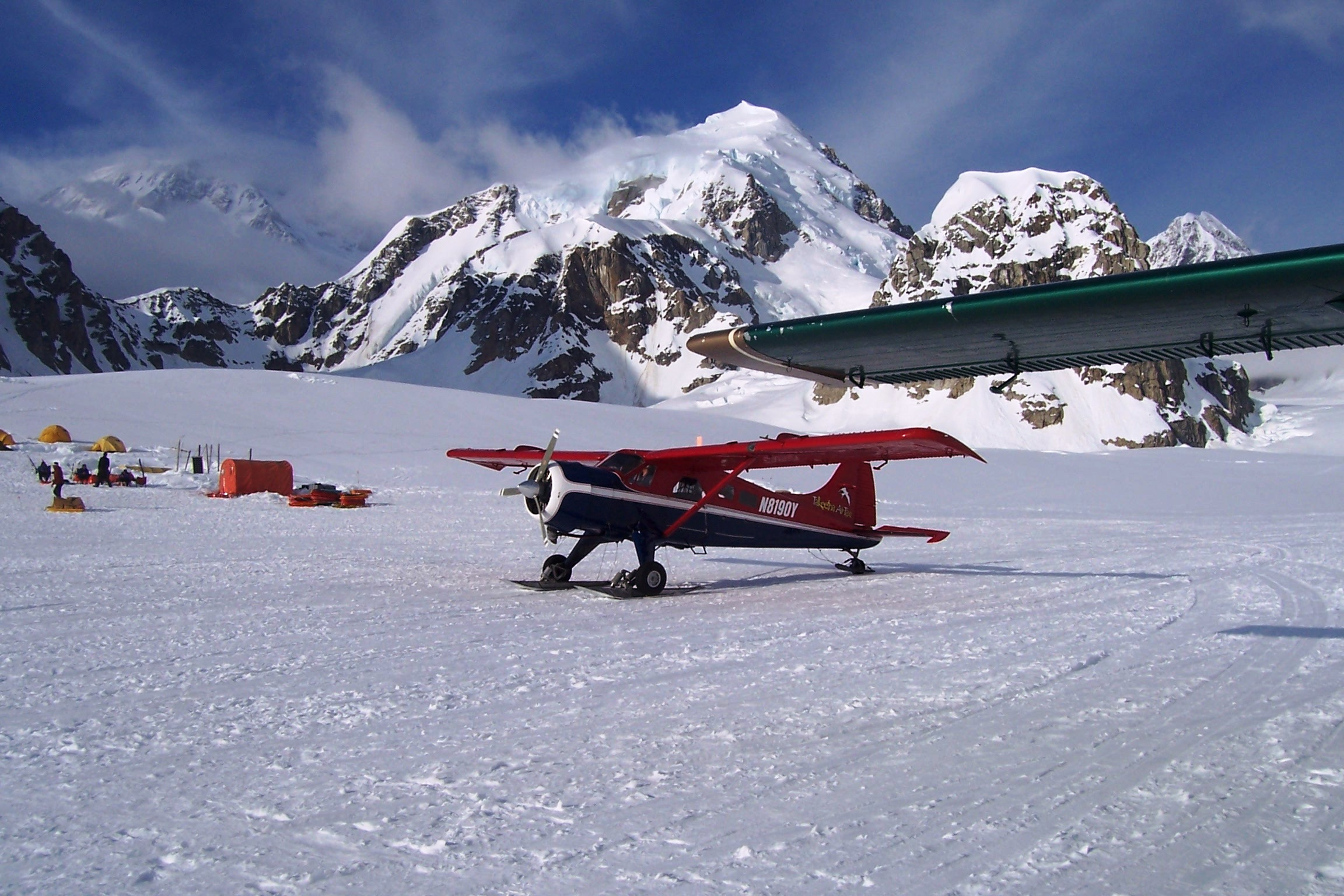 DENALI NATIONAL PARK (MT. MCKINLEY) - KAHILTNA GLACIER BASE CAMP